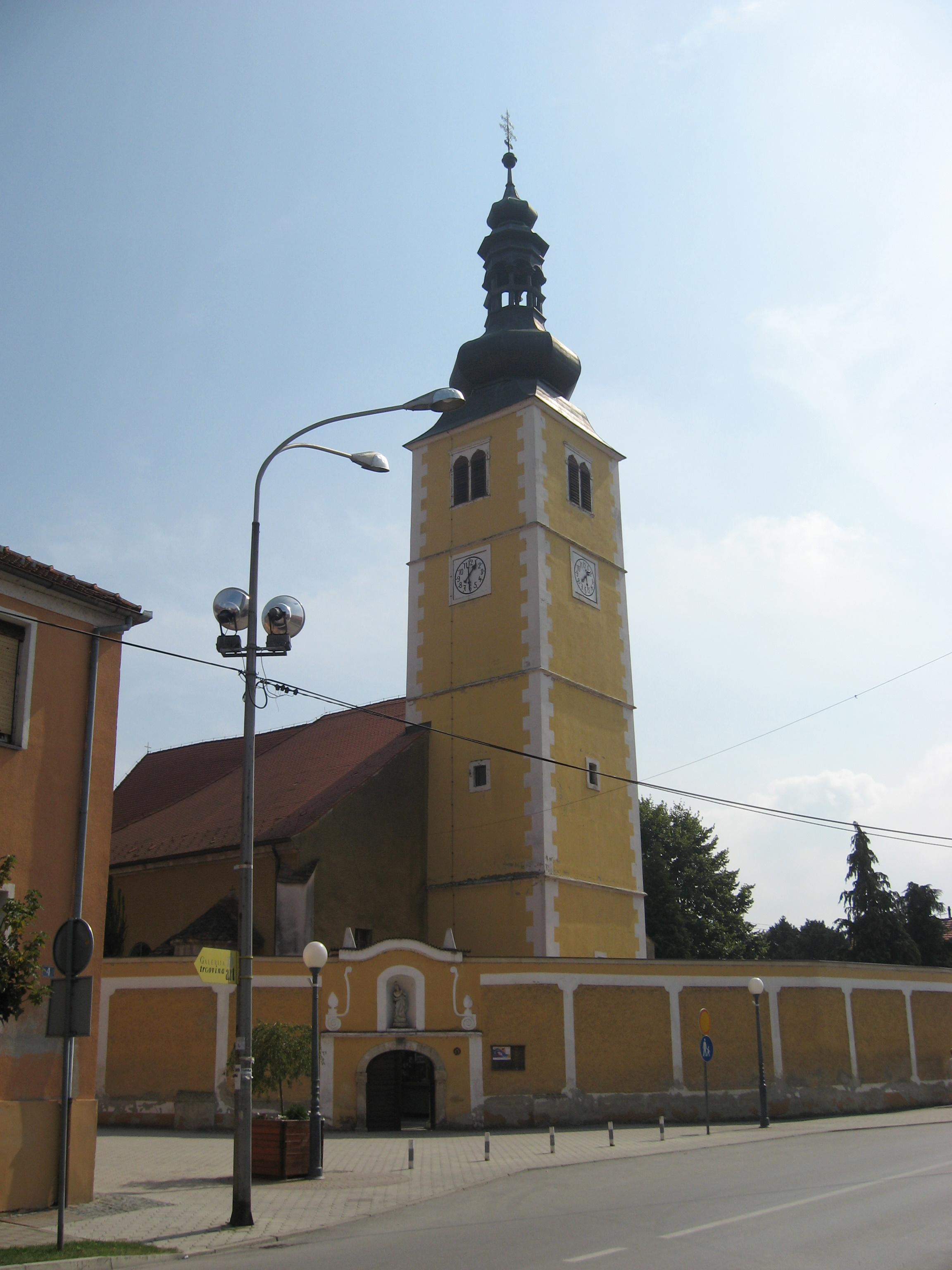 Church of Holy Trinity. Ludbreg. Croatia